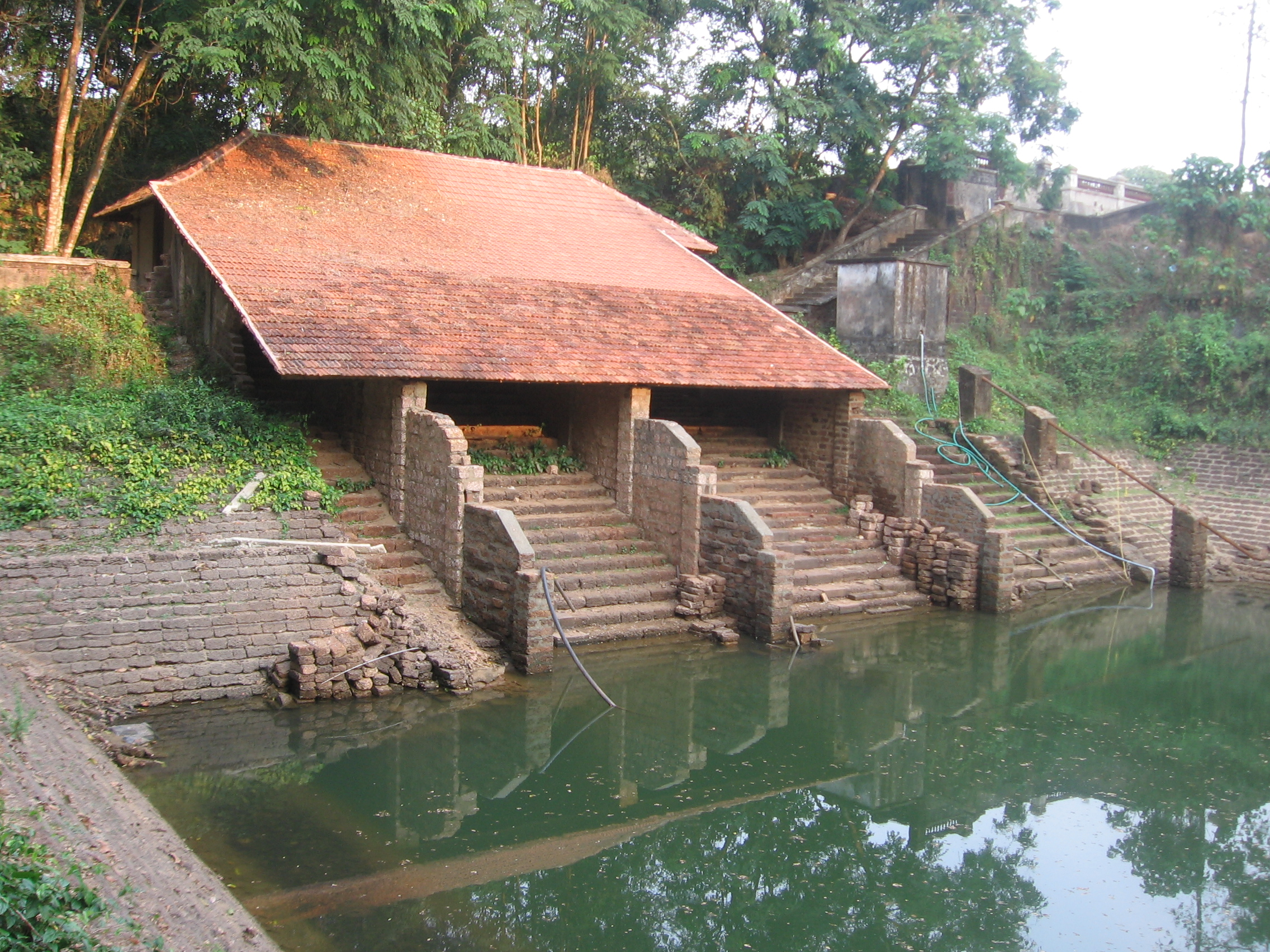 Inside of Thripunithura Hill Palace Compound.